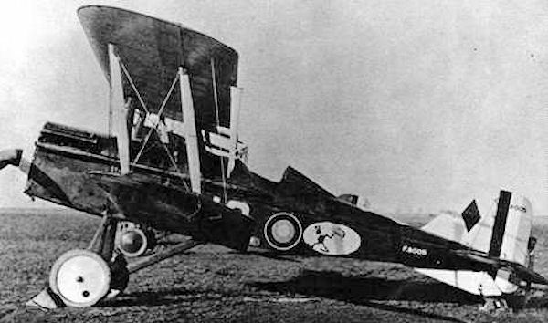 Royal Aircraft Factory S.E.5, 25th Aero Squadron, Gengault Aerodrome (Toul), Frnce, November 1918